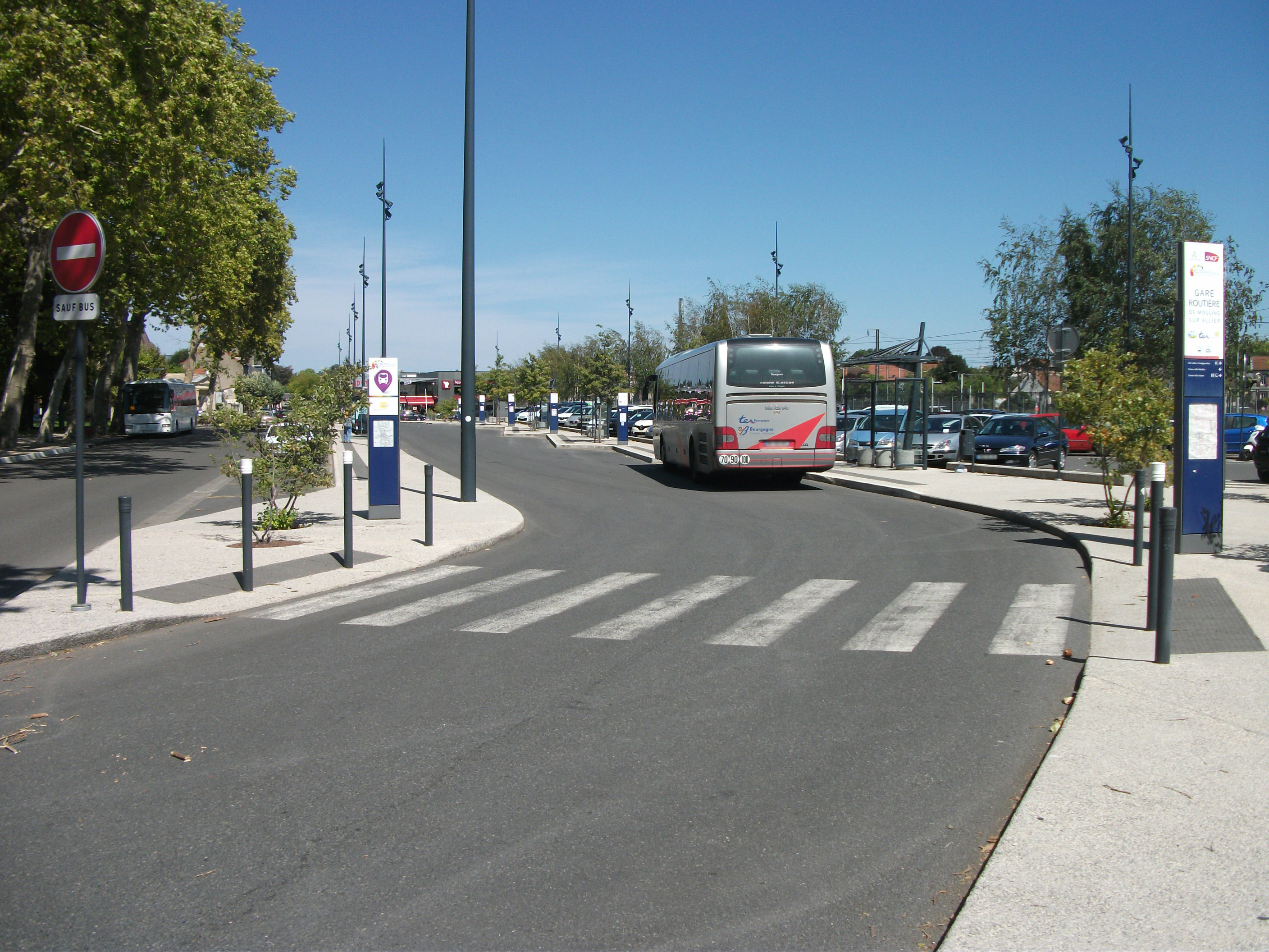 Gare routière of Moulins-sur-Allier railway station [8851]